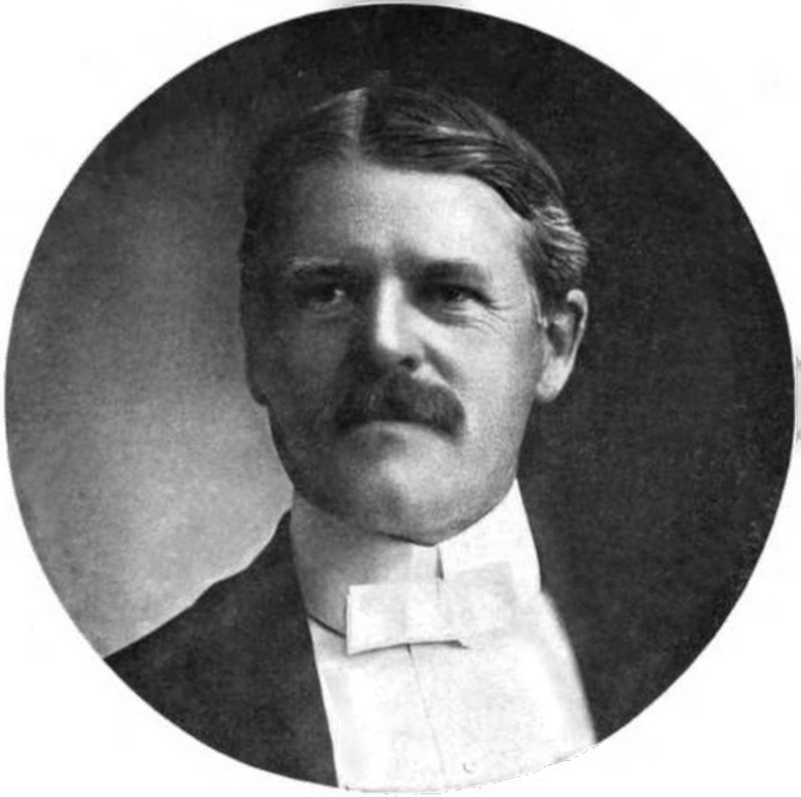 A portrait of astronomer A. E. Douglass from the publication 'Who's Who in Arizona' from 1913.